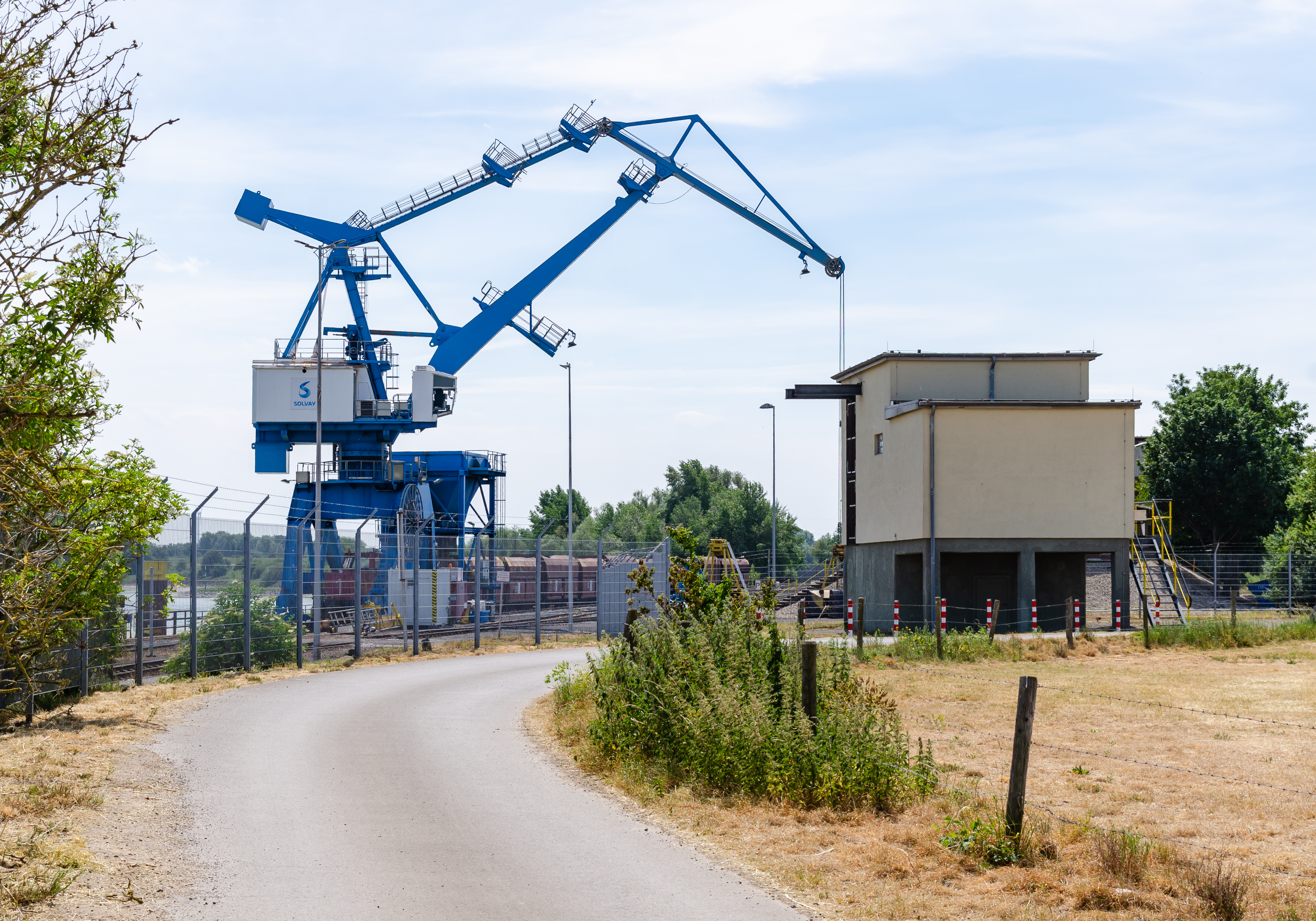 Rheinberg (North Rhine-Westphalia, Germany) – district Ossenberg – Solvay Rhine Harbour